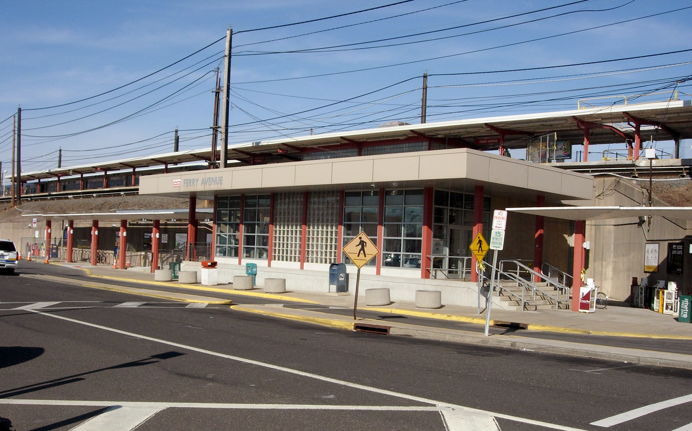 Entrance to Ferry Avenue station from the parking lot